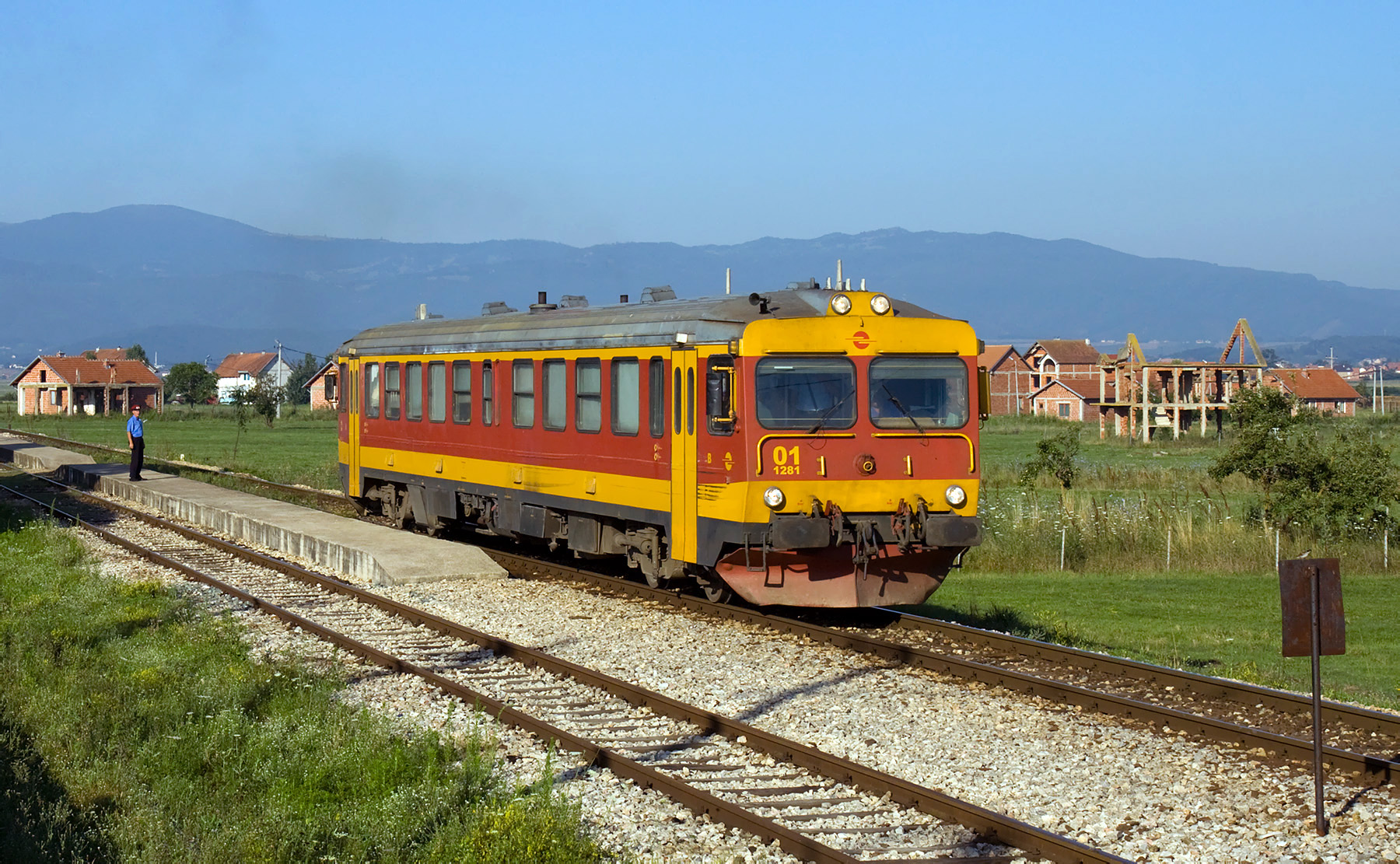 Former SJ Y1, now used by Kosovo Railways, at Bablak